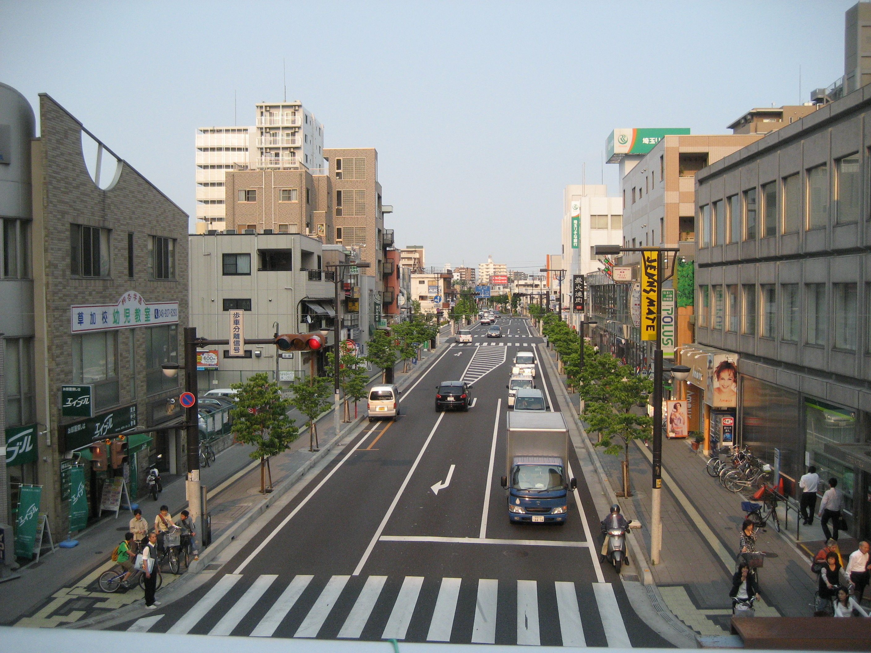 The Saitama Prefectural Road Route 402 in Soka City